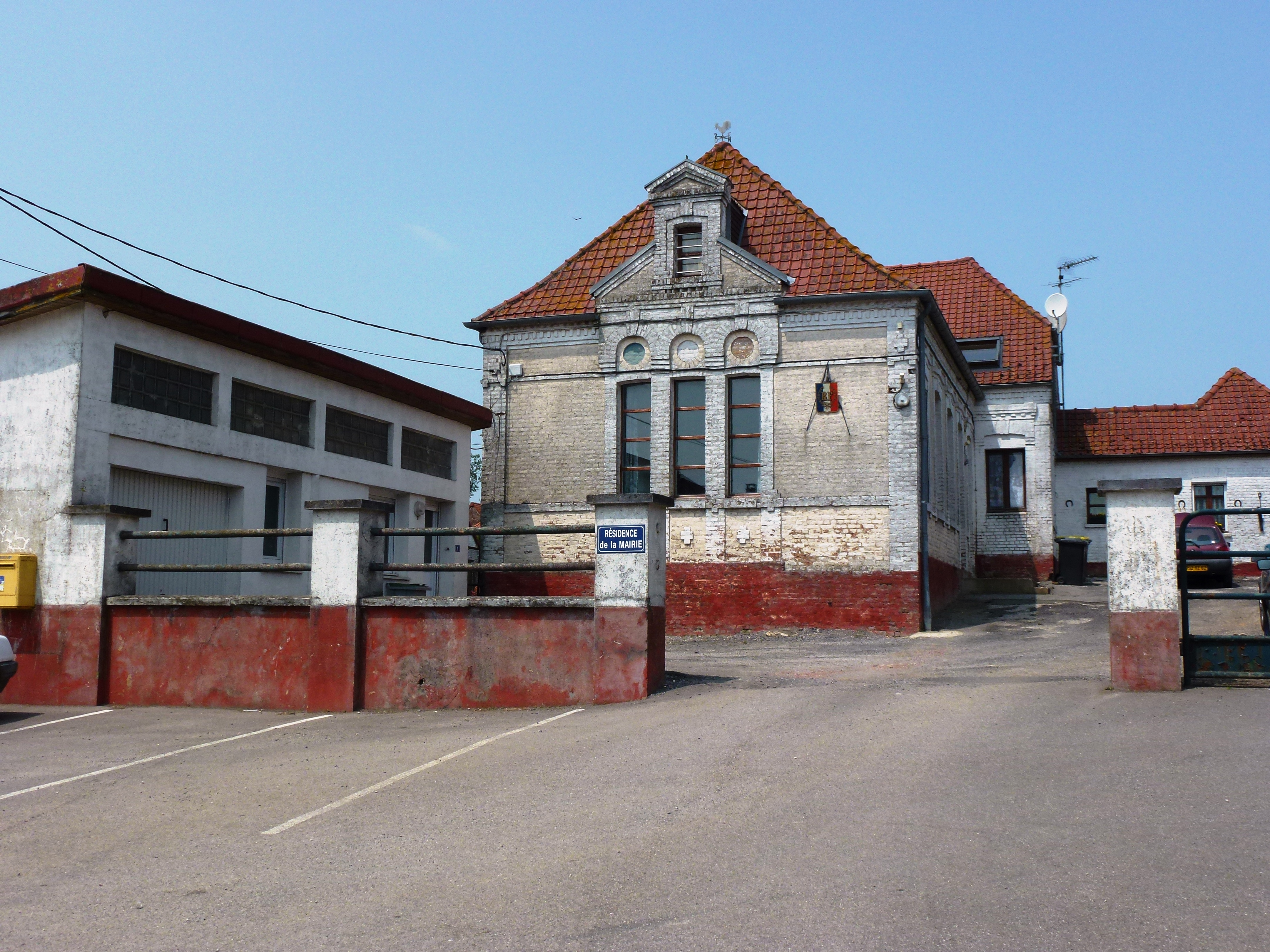 Vincly (Pas-de-Calais, Fr) Résidence de la Mairie